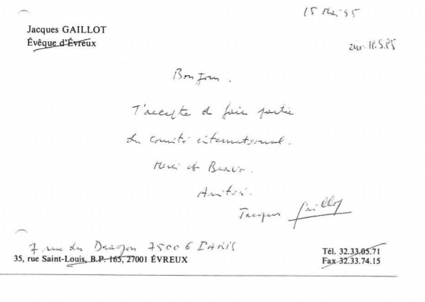 Letter from Bishop Jaques GAILLOT in which he confirms his participation in the International Human Rights Tribunal in June 1995